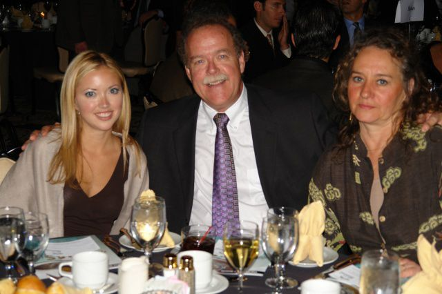 Tim Hawthorne at the Electronic Retailing Association Awards Dinner, on September 12, 2006. He is sitting between his daughter Jessica and his wife Laya.